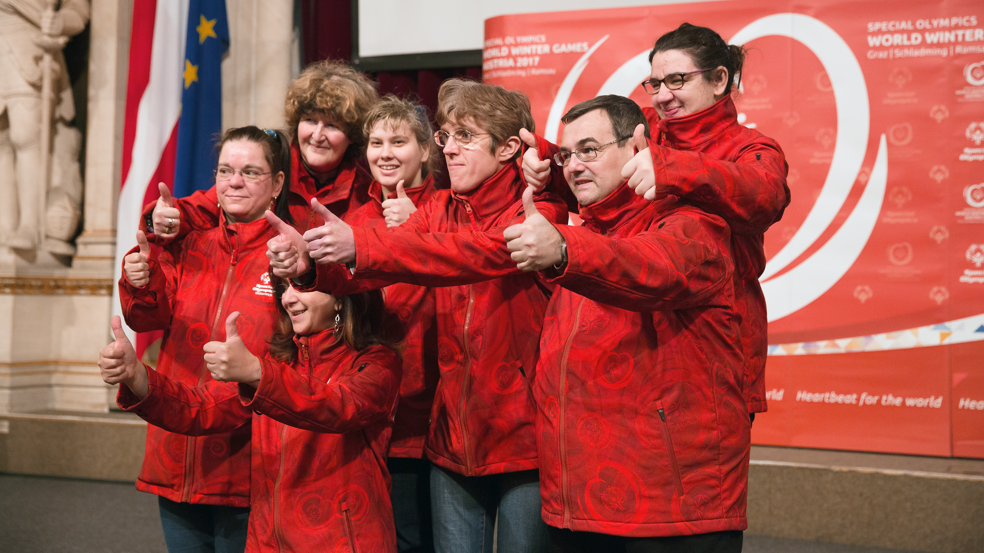 Team members from Austria for the 2017 Special Olympics World Winter Games at the reception at Rathaus, Vienna.